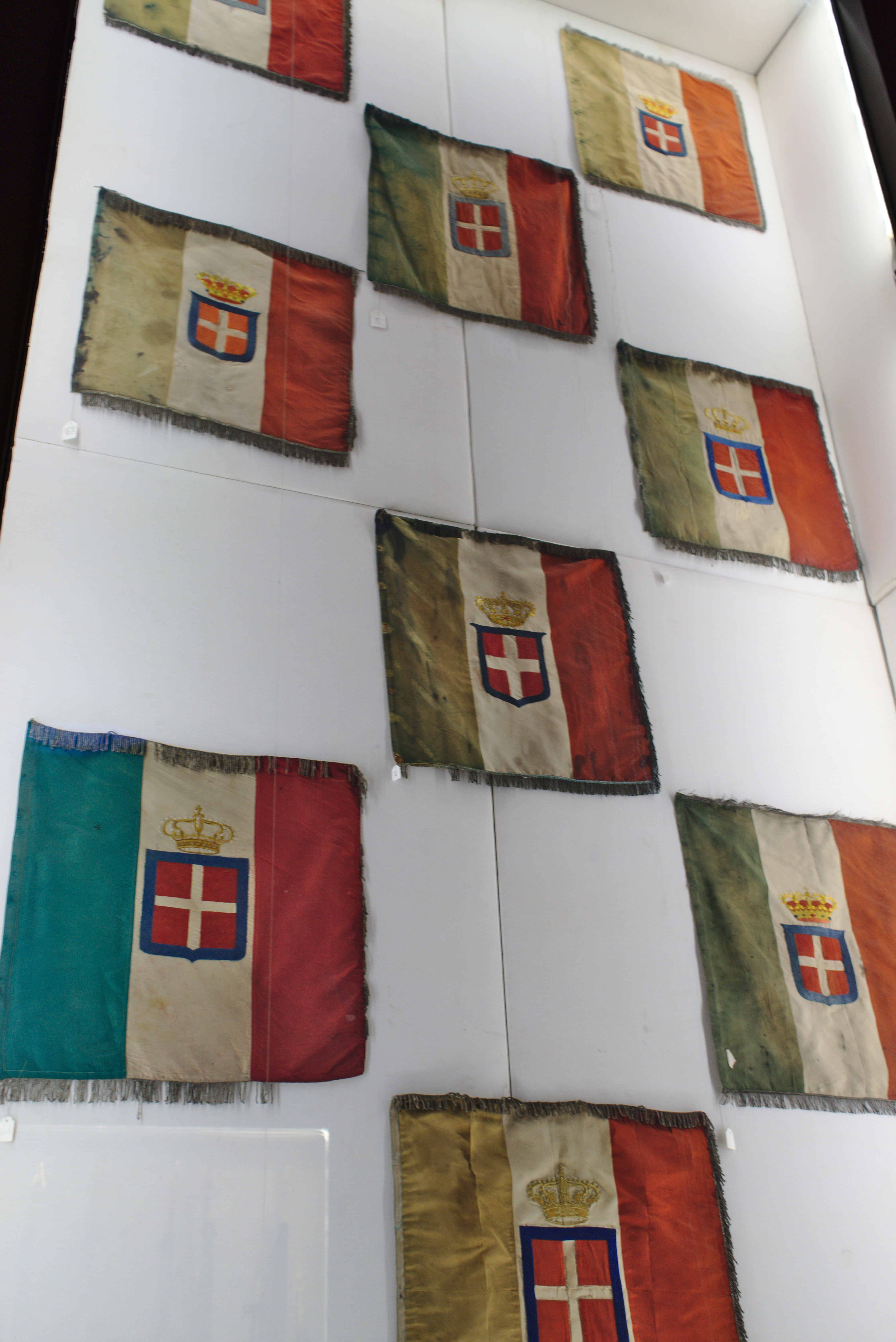 War flags of Kingdom of Italy (1861-1946)